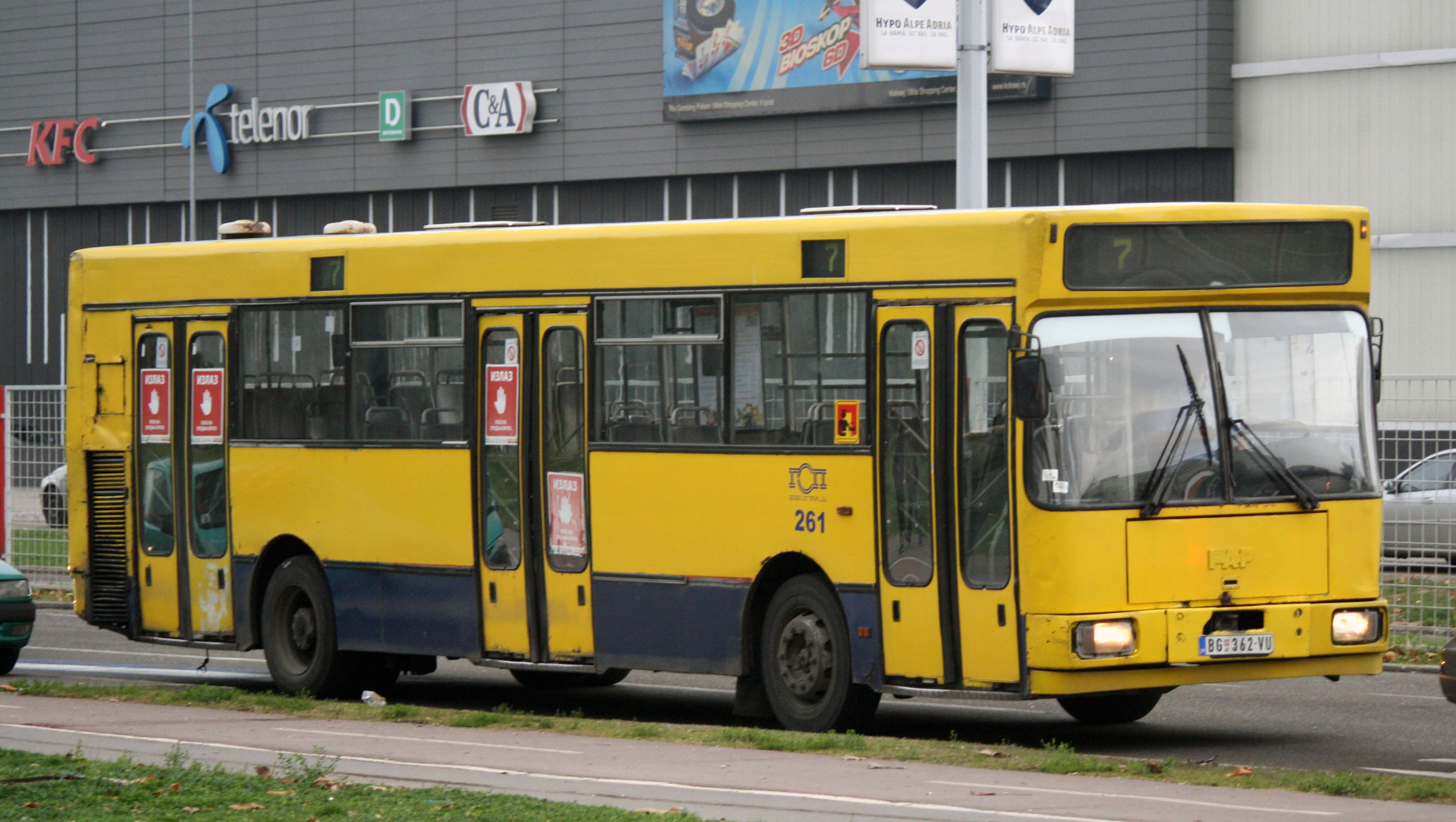 FAP A 537 city bus of GSP Beograd on line 7.